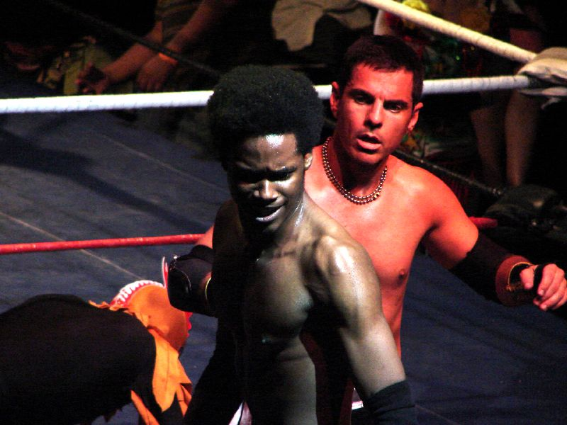 Professional wrestler Human Tornado (real name Craig Williams, left) and Disco Ball (right) at Lucha Va Voom on June 20, 2006